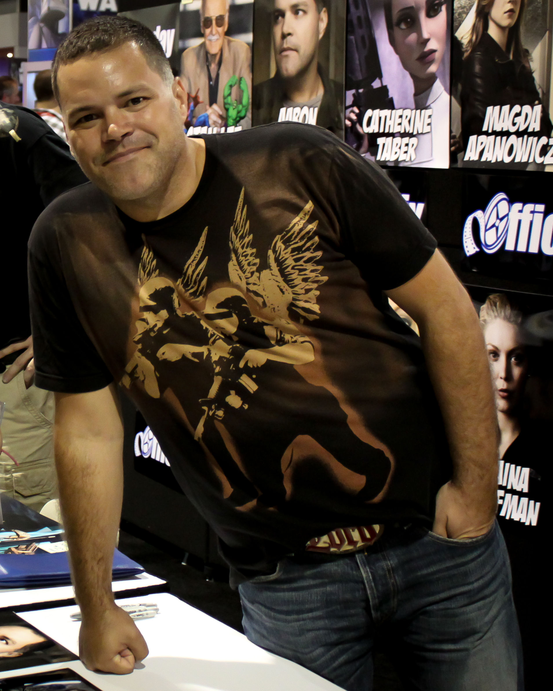 Aaron Douglas at San Diego Comic Con in July 2010